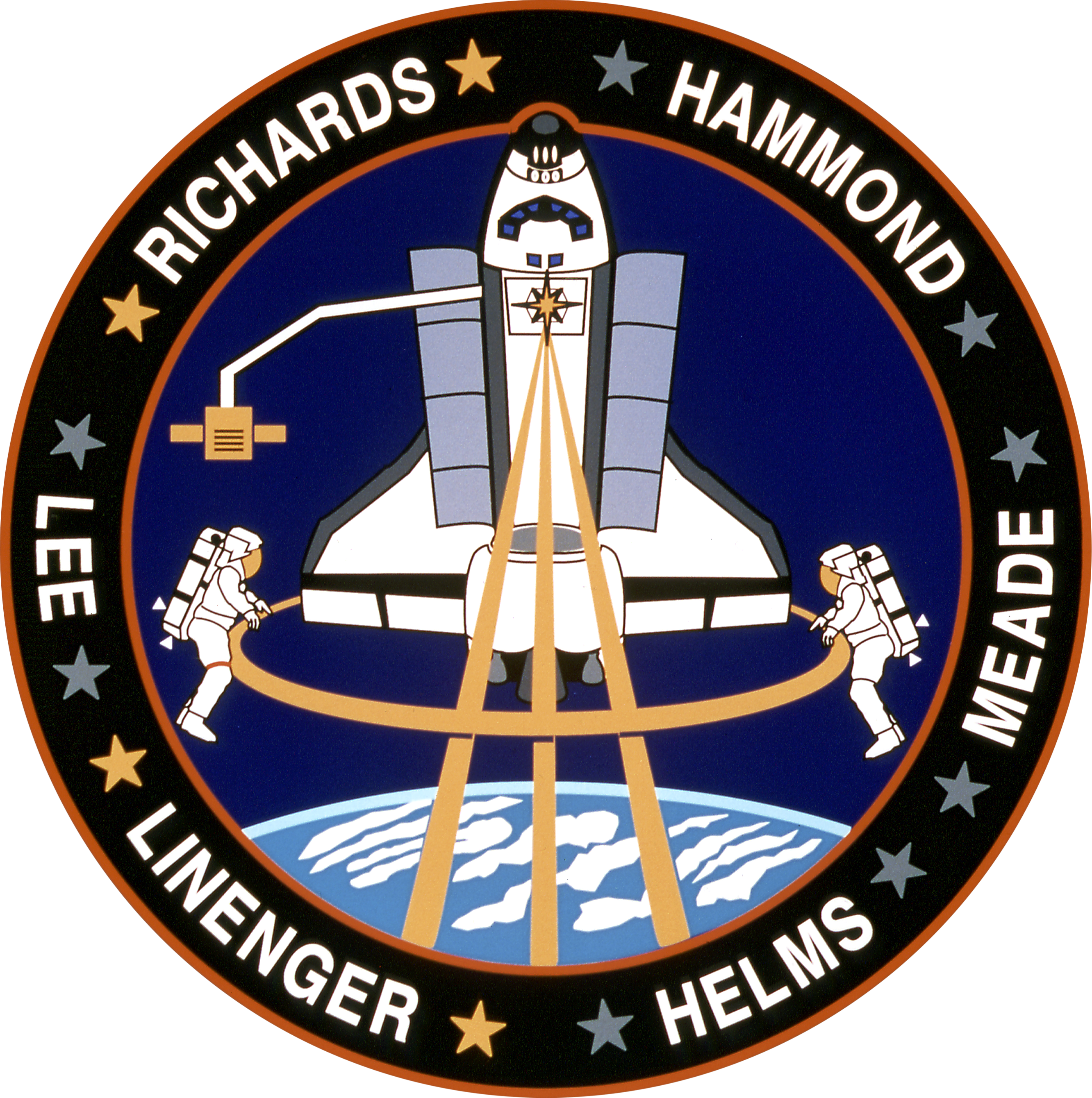 STS-64 Mission Insignia The STS-64 patch depicts the Space Shuttle Discovery in a payload-bay-to-Earth attitude with its primary payload, Lidar In-Space Technology Experiment (LITE-1) operating in support of Mission to Planet Earth. LITE-1 is a lidar system that uses a three-wavelength laser, symbolized by the three gold rays emanating from the star in the payload bay that form part of the astronaut symbol. The major objective of the LITE-1 is to gather data about the Earth's troposphere and stratosphere, represented by the clouds and dual-colored Earth limb. A secondary payload on STS-64 is the free-flier SPARTAN 201 satellite shown on the Remote Manipulator System (RMS) arm post-retrieval. The RMS also operated another payload, Shuttle Plume Impingement Flight Experiment (SPIFEX). A newly tested extravehicular activity (EVA) maneuvering device, Simplified Aid for EVA Rescue (SAFER), represented symbolically by the two small nozzles on the backpacks of the two untethered EVA crew men. The names of the crew members encircle the patch: Astronauts Richard N. Richards, L. Blaine Hammond, Jr., Jerry M. Linenger, Susan J. Helms, Carl J. Meade and Mark C. Lee. The gold or silver stars by each name represent that person's parent service.